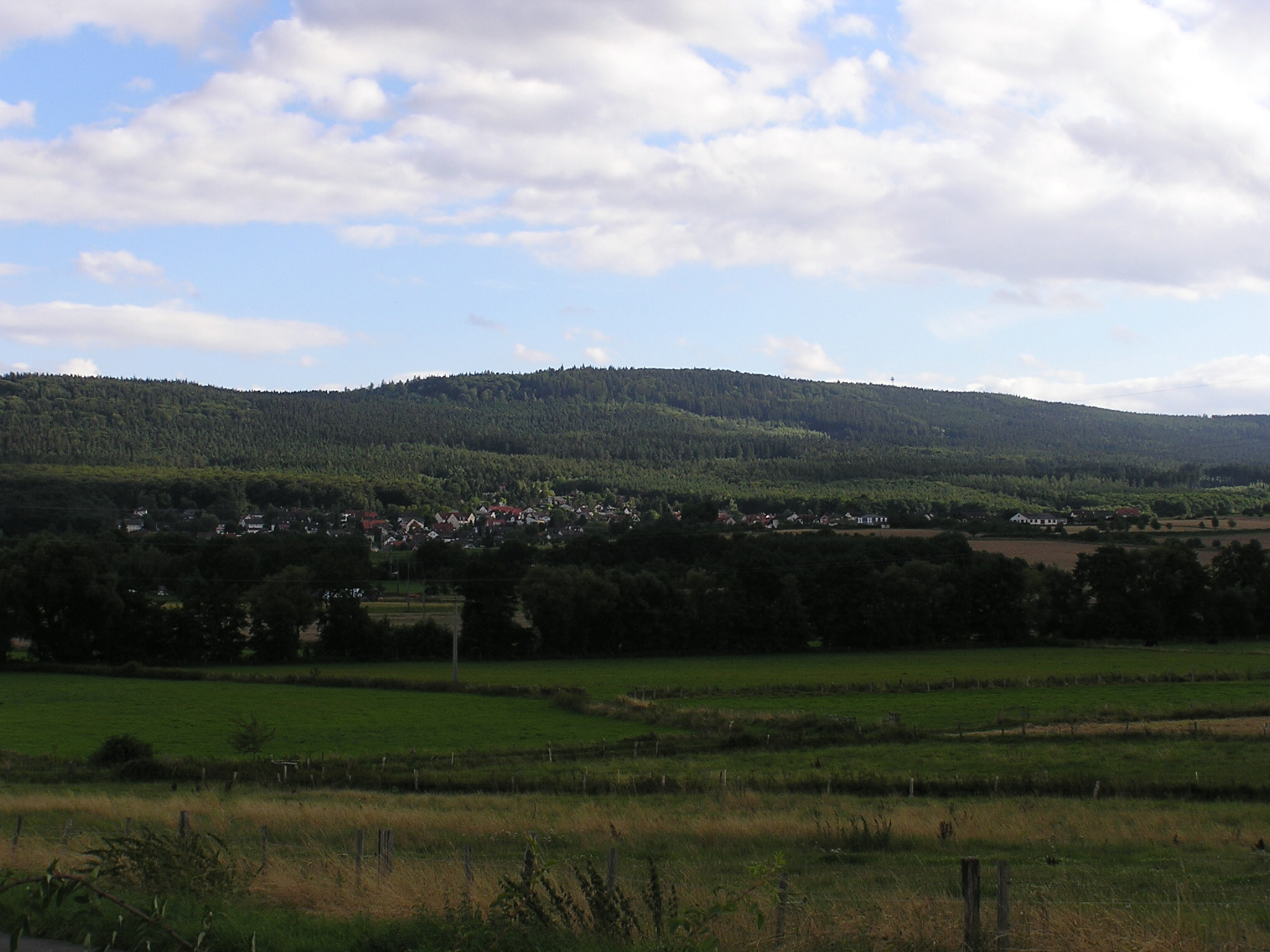 Wehrheim's district Obernhain. The Herzberg is located behind the Taunus heights.